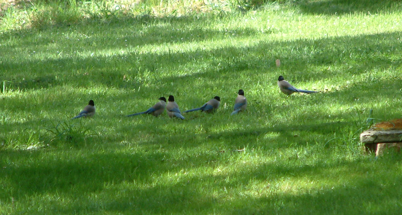 RABILARGOS EN SALAMANCA Cyanopica cooki